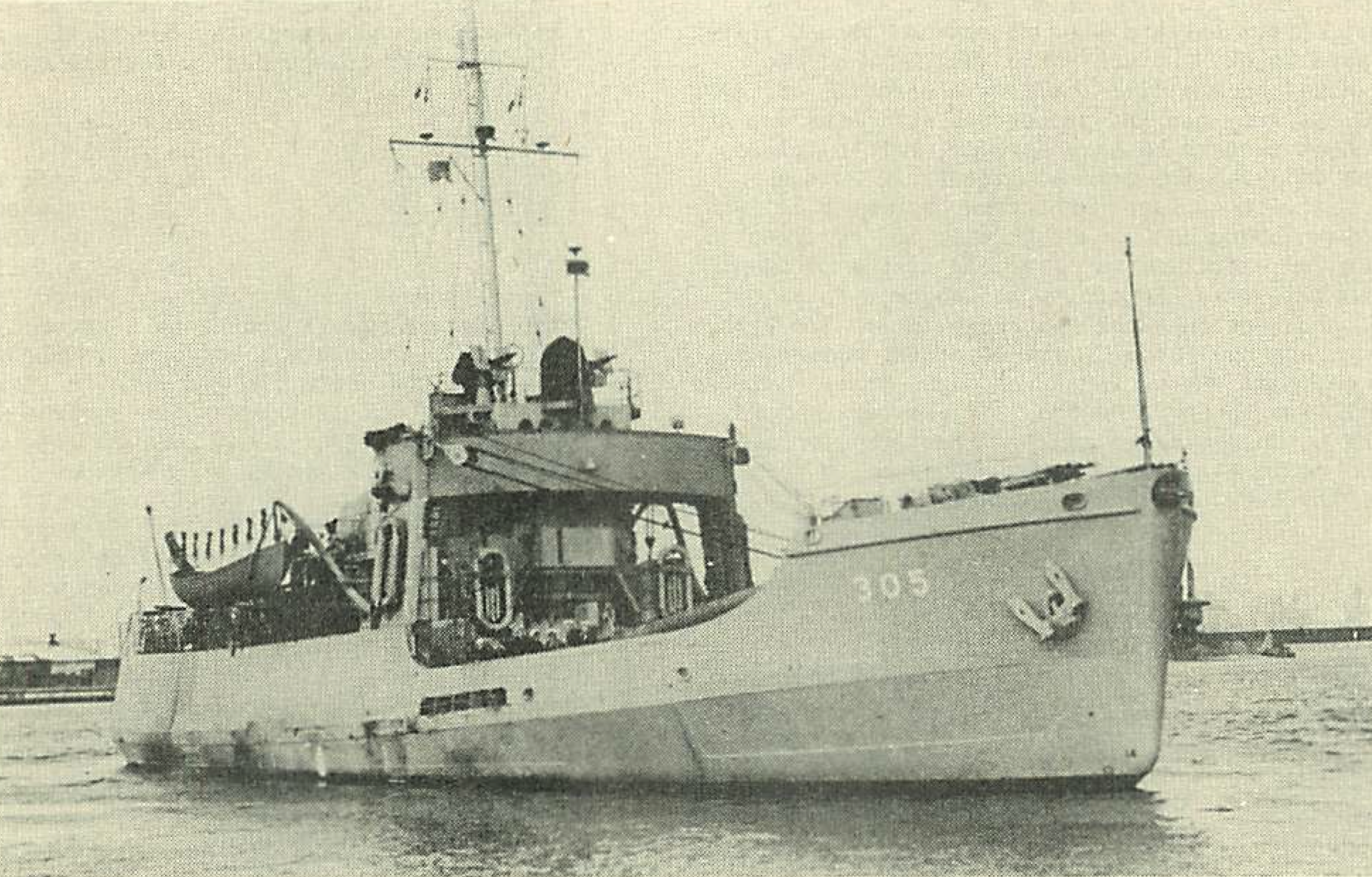 USCGC Mesquite in World War II